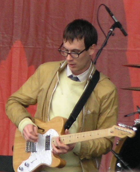 Taken during MyCokeFest at Centennial Olympic Park in Atlanta